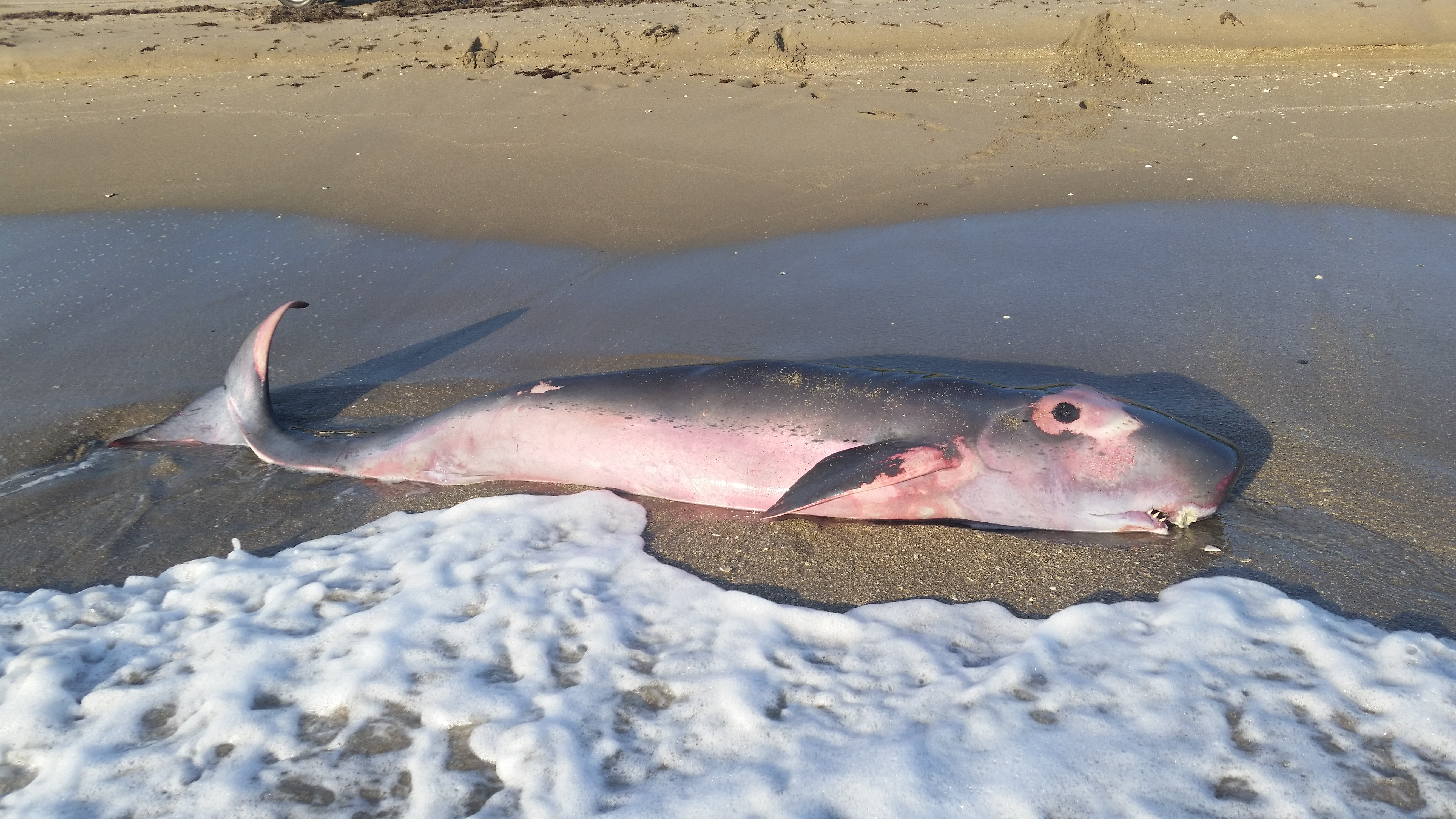 Dead pygmy sperm whale (Kogia breviceps) stranded on South Hutchinson Beach (Florida).